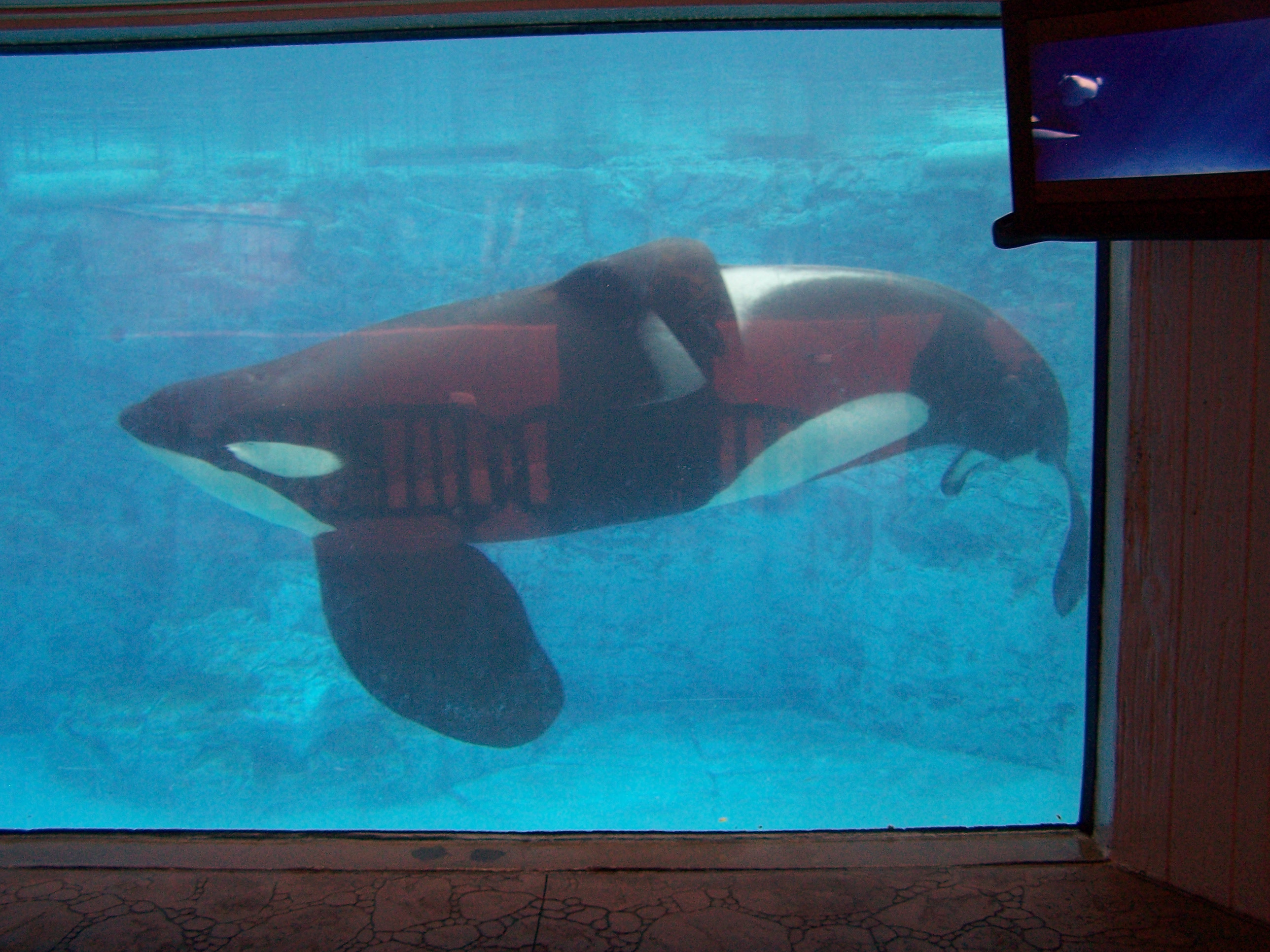 Tilikum (or Tilly for Short) the Orca at Sea World Orlando Shamu Observation Area.